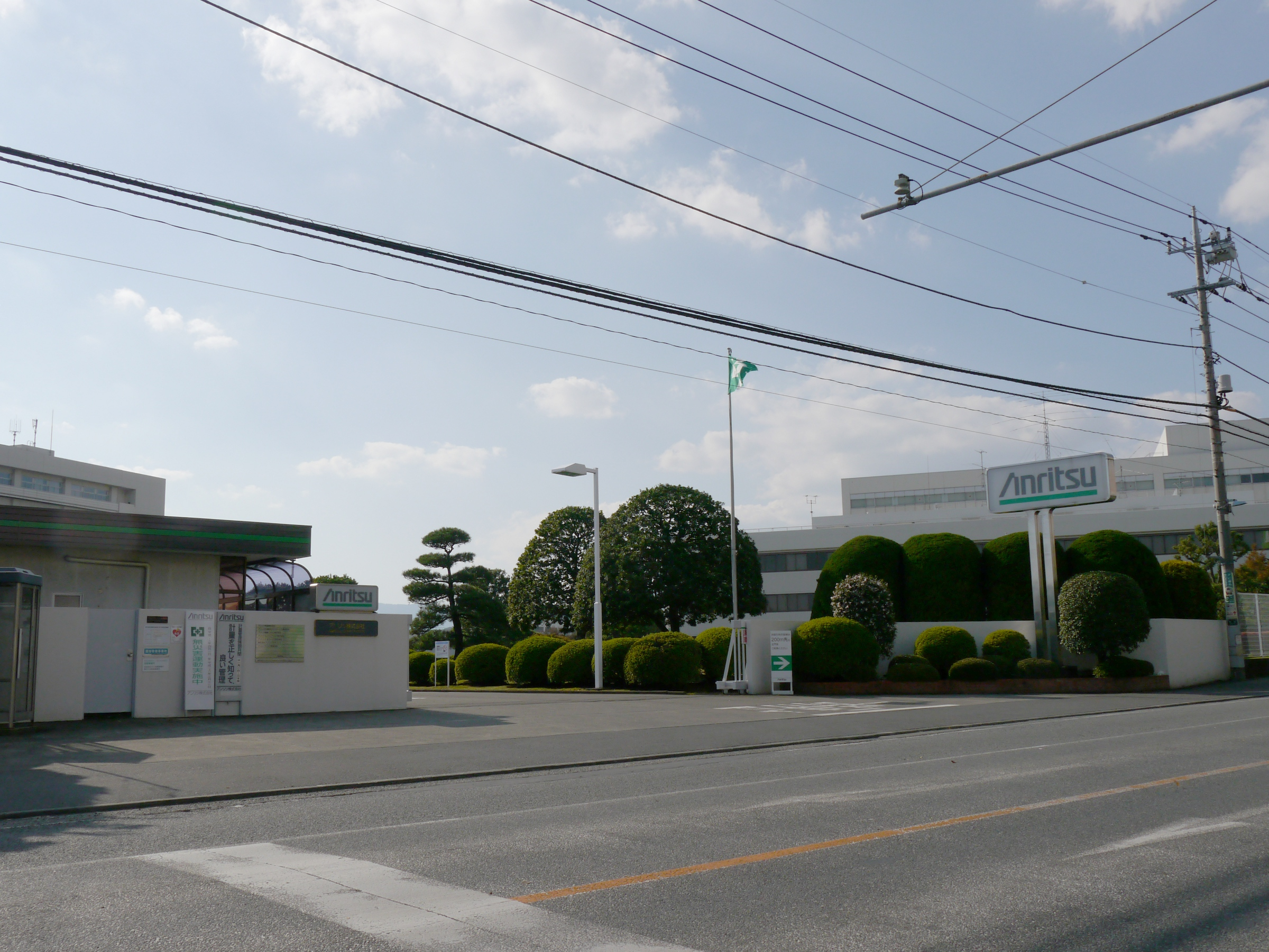 Anritsu Corporation Head Office